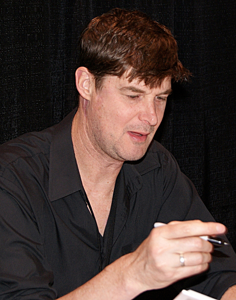 Doug TenNapel attending the Calgary Comic & Entertainment Expo in BMO Centre, Calgary, Alberta, Canada.